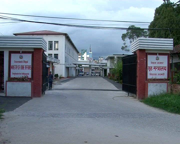 Home ministry building nepal